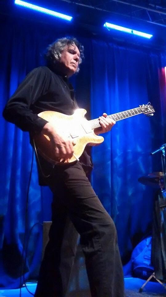 John Etheridge